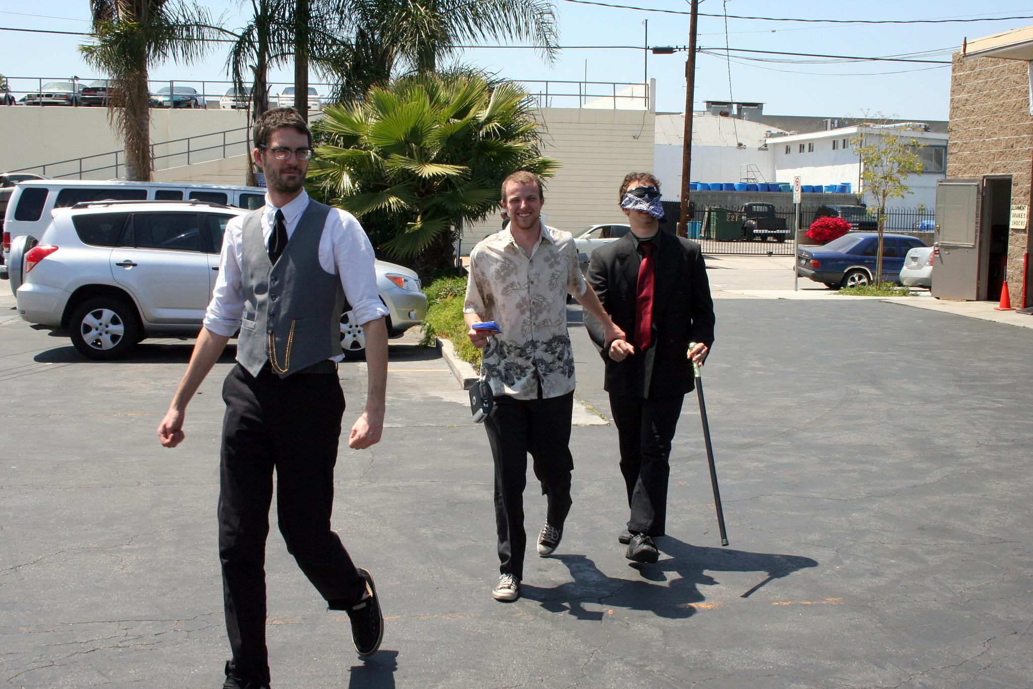 Bachelor is beeing led to his Bachelor Party